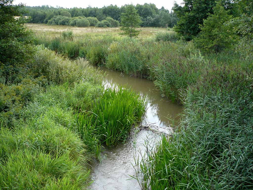 Rīva River near Apriķi - Gudenieki road